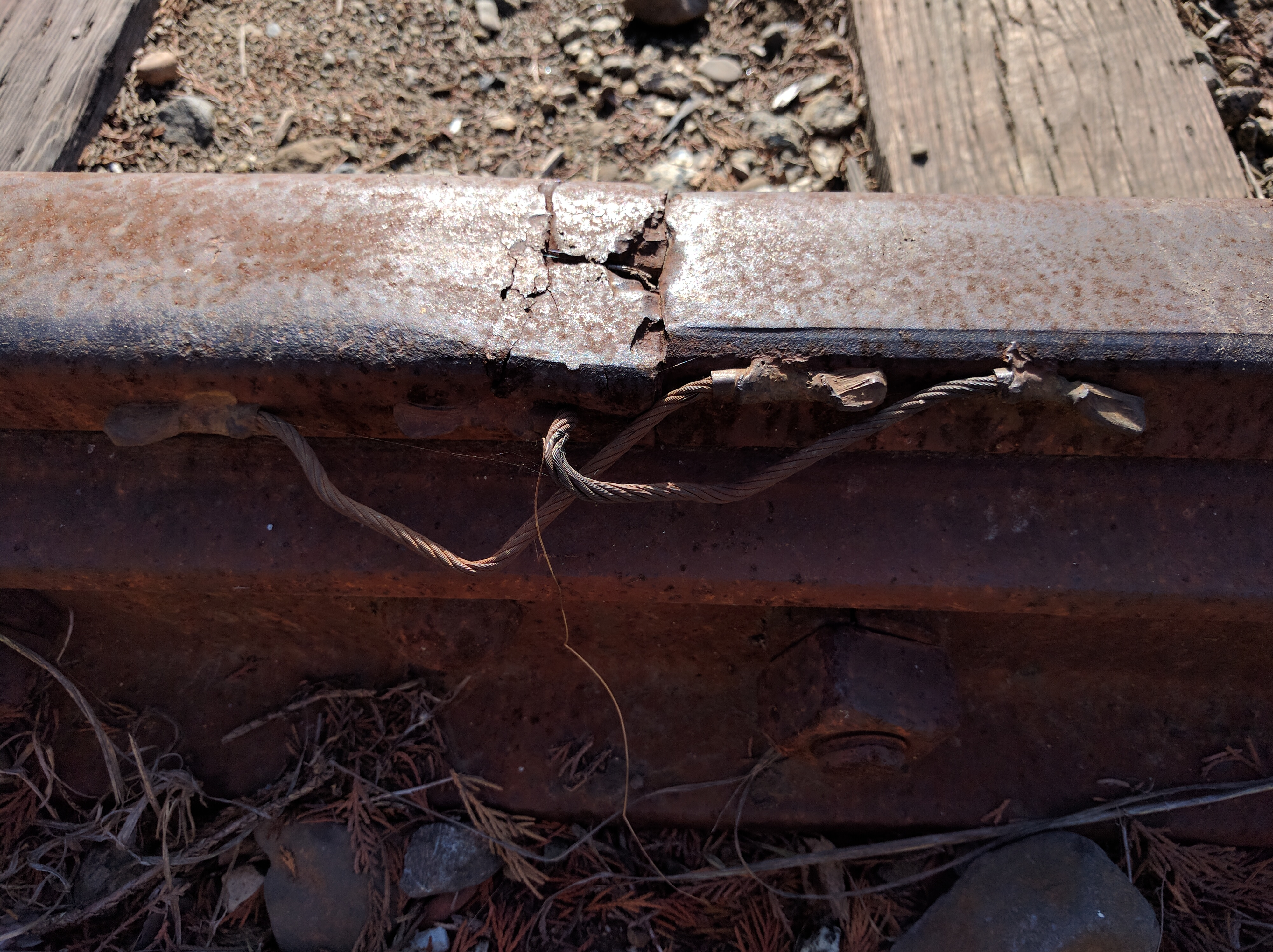 A damaged piece of rail on a line belonging to Union Pacific going through Santa Cruz.